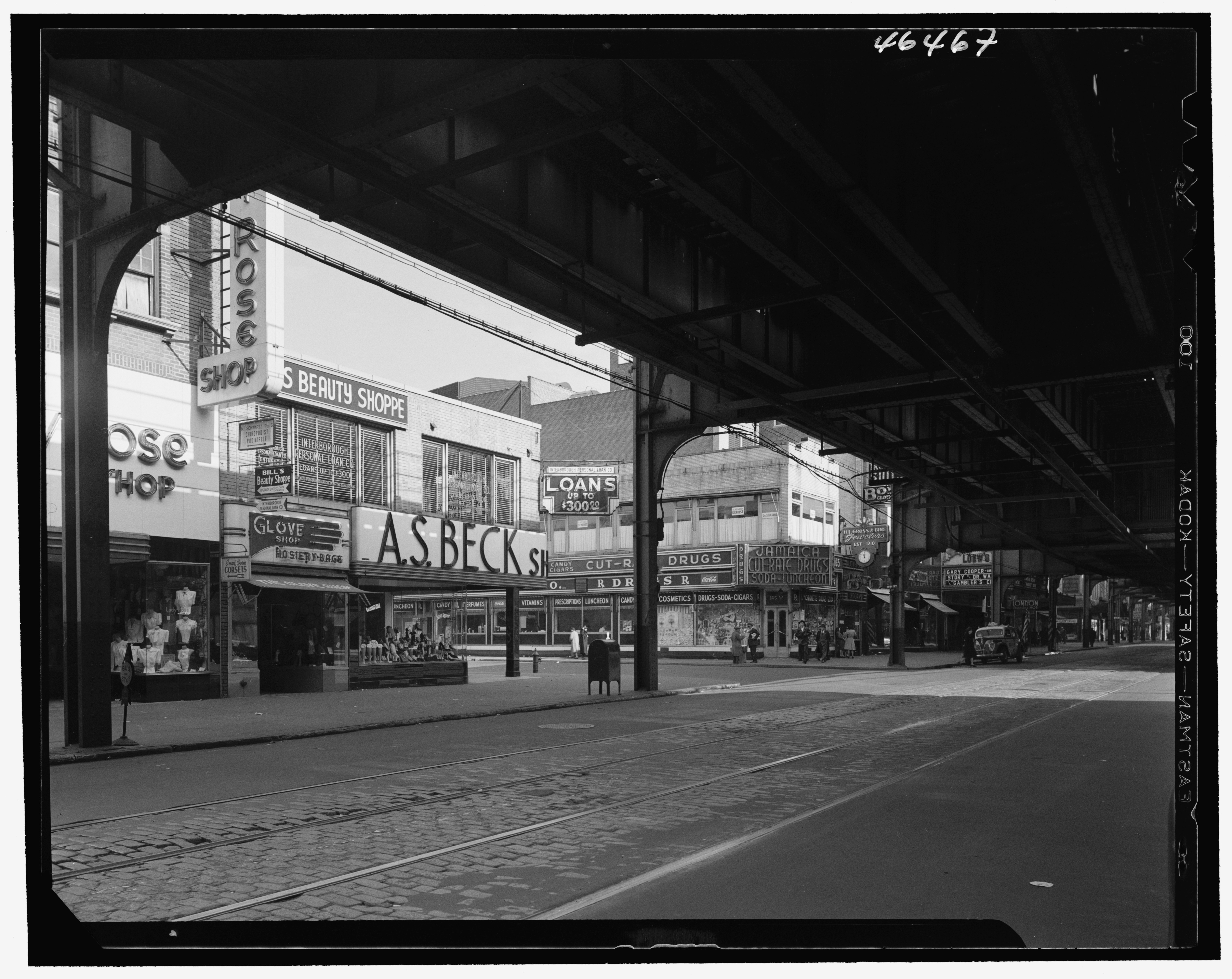 Title: Jamaica Ave., Jamaica, New York. Abstract/medium: Gottscho-Schleisner Collection (Library of Congress) Physical description: 1 negative